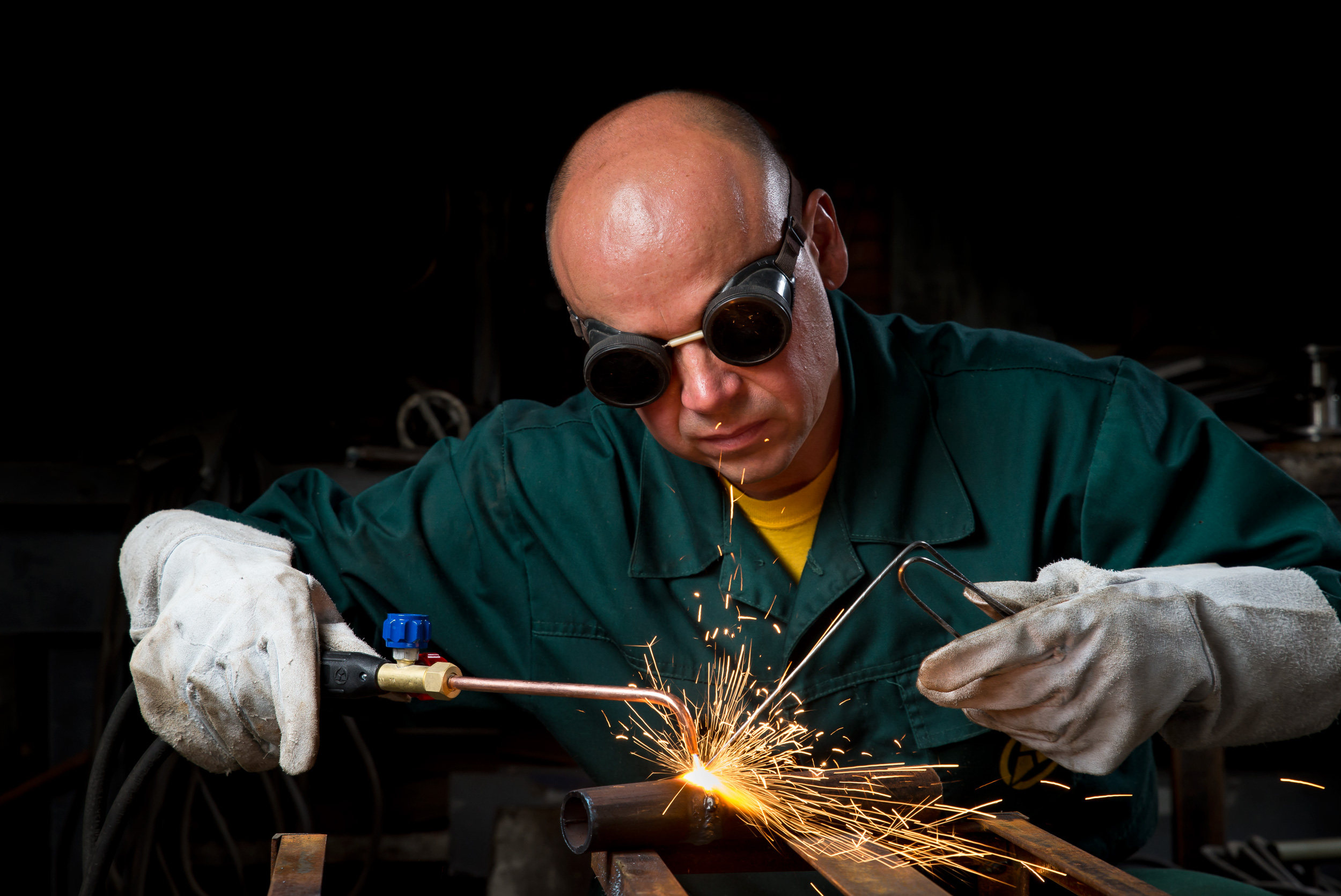 Oxy-fuel welding. welding torch G2 "MINI DM" 273